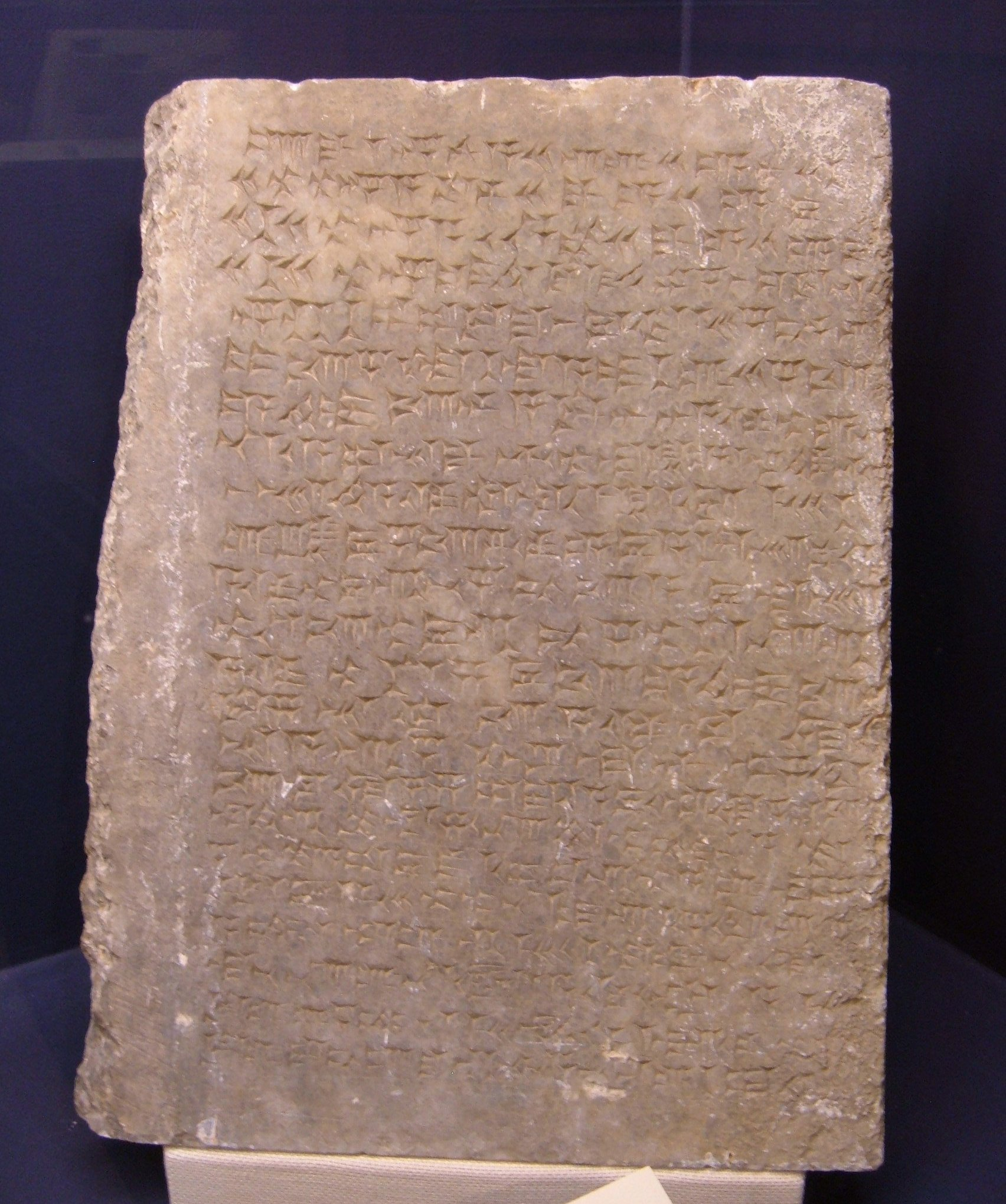 Chalcedony paving slab from a palace (ca. 600 BCE) on display at the Rosicrucian Egyptian Museum in San Jose, California. Used by kings to record their deeds, the cuneiform carved into such slabs made them non-slip. (note) Line 1, 1st cuneiform sign (left) for "house", "palace", É. (4 verticals, 2 horizontals ligatured at left (overscribed by the 4-verticals)) RC 1801